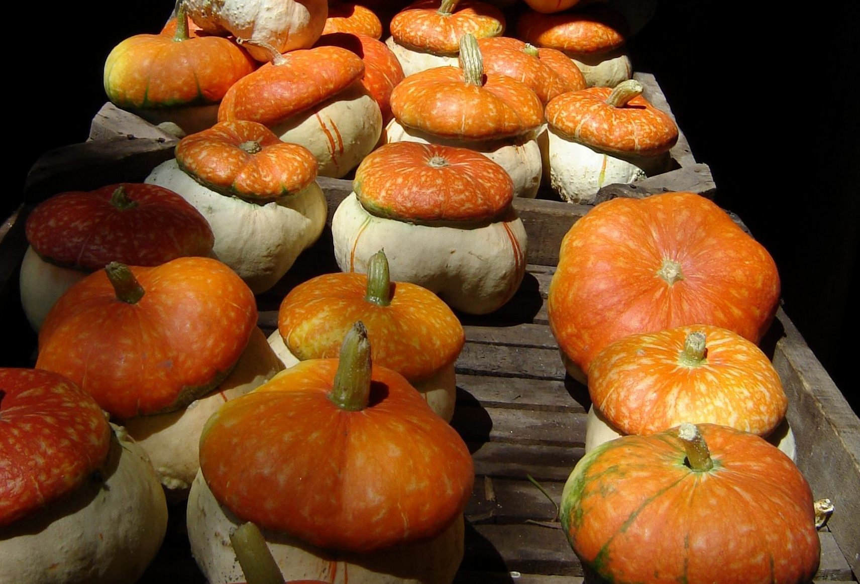 Pumpkins with red hat, from San Rafael, Mendoza, Argentina. Cultivar Mini red turban.